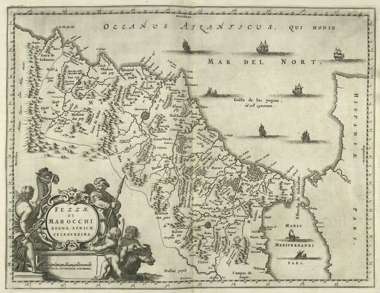 Map of Fezzae et Marocchi Regna Africae Celeberrima found between pages 158 and 159 of Africa: being an accurate description of the regions of Ægypt, Barbary, Lybia, and Billedulgerid, the land of Negroes, Guinee, Æthiopia and the Abyssines : with all the adjacent islands, either in the Mediterranean, Atlantick, Southern or Oriental Sea, belonging thereunto : with the several denominations of their coasts, harbors, creeks, rivers, lakes, cities, towns, castles, and villages, their customs, modes and manners, languages, religions and inexhaustible treasure : with their governments and policy, variety of trade and barter : and also of their wonderful plants, beasts, birds and serpents : collected and translated from most authentick authors and augmented with later observations : illustrated with notes and adorn'd with peculiar maps and proper sculptures